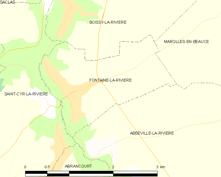 Map of French municipality Fontaine-la-Rivière